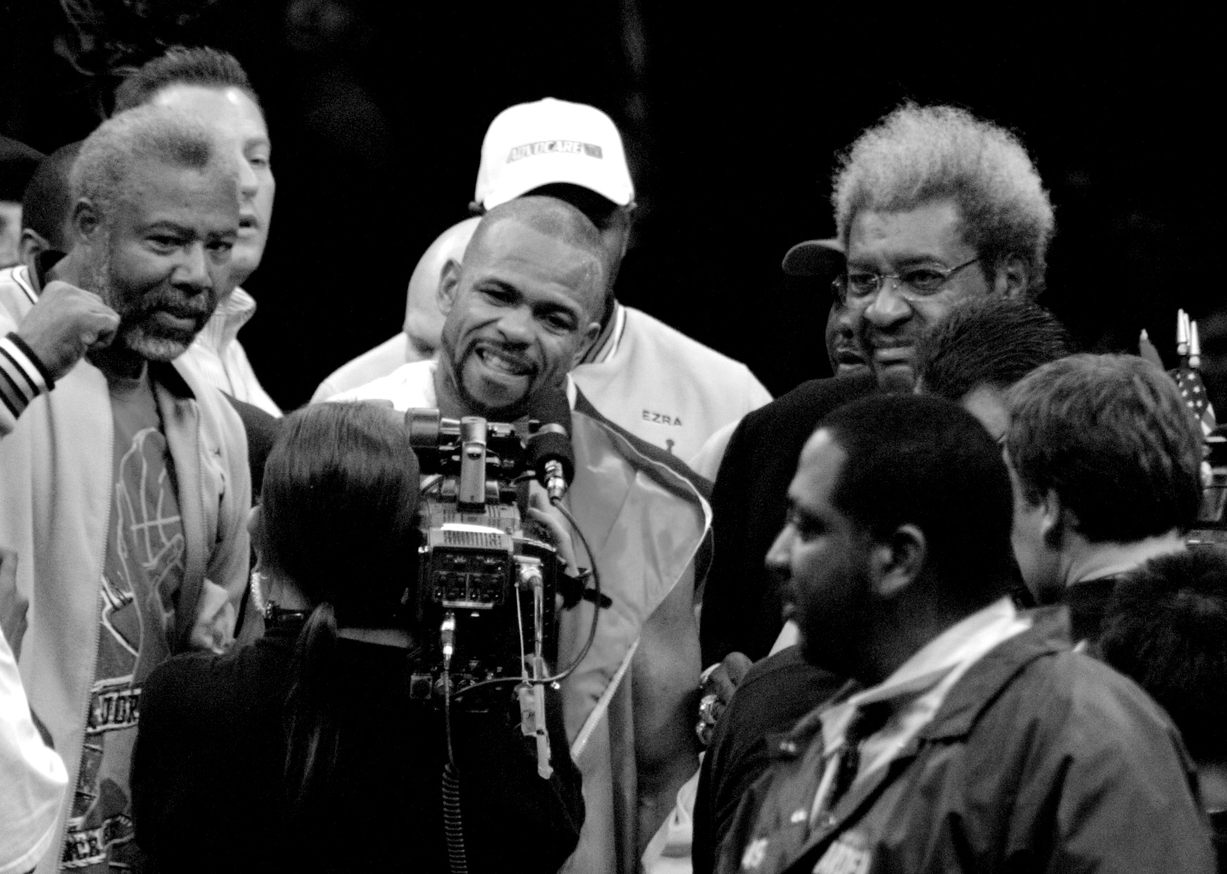 Roy Jones, Jr. posing with Don King after his victory over Felix Trinidad.